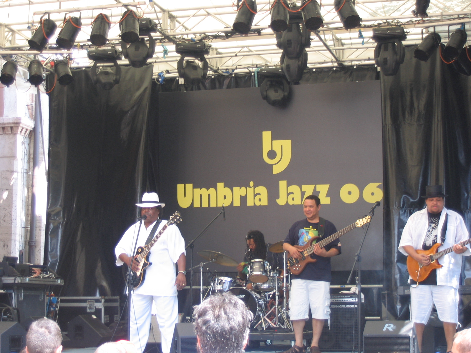 Les Getrex and the Creole Cooking performing live at Umbria Jazz 06, Perugia, Italy, 16 july 2006.